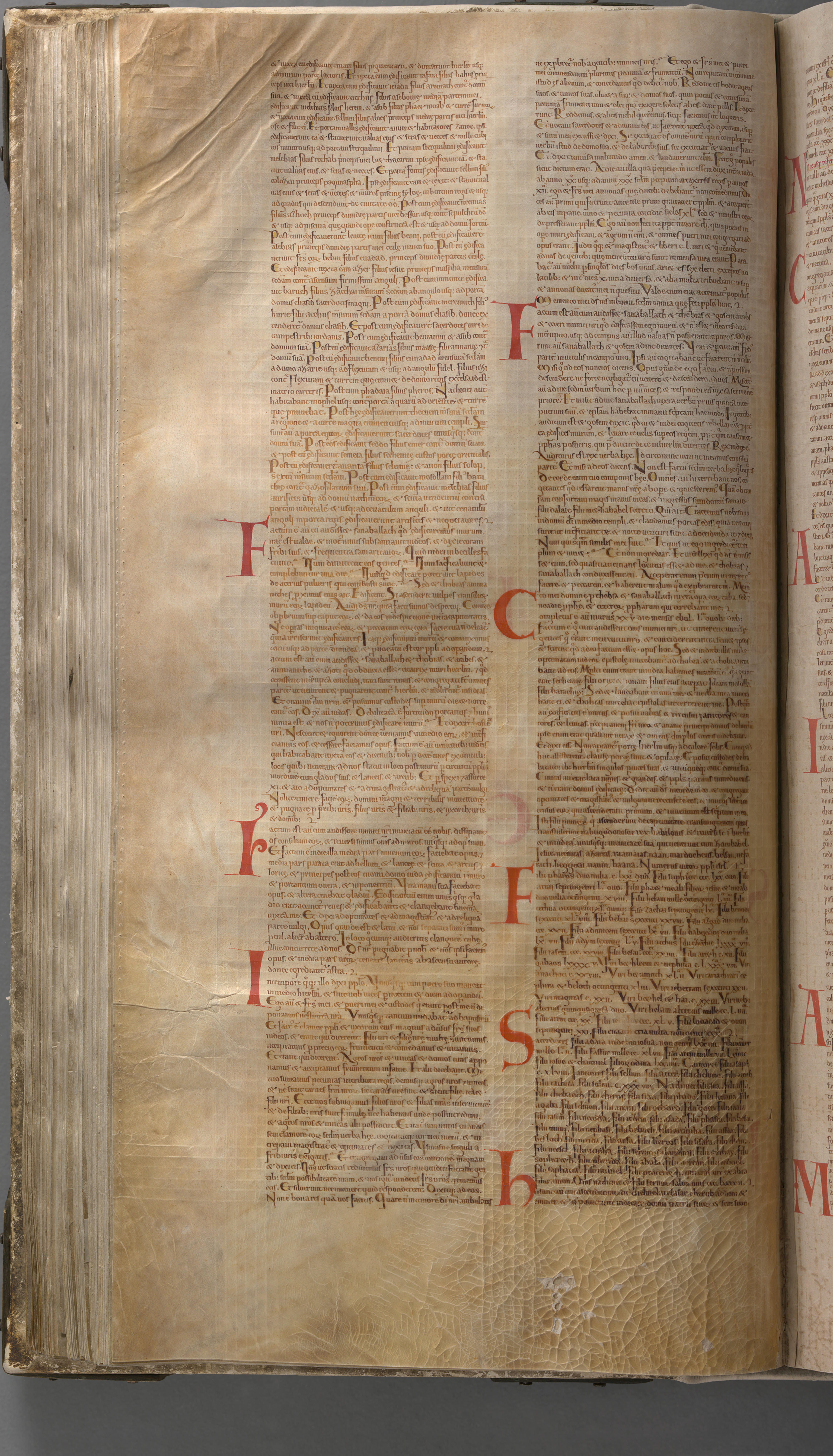 Giant Book), the largest extant medieval manuscript in the world. It is also known as the Devil's Bible because of a large illustration of the devil on the inside and the legend surrounding its creation. It is thought to have been created in the early 13th century in the Benedictine monastery of Podlažice in Bohemia (modern Czech Republic). It contains the Vulgate Bible as well as many historical documents all written in Latin. During the Thirty Years' War in 1648, the entire collection was taken by the Swedish army as plunder, and now it is preserved at the National Library of Sweden in Stockholm, though it is not normally on display.